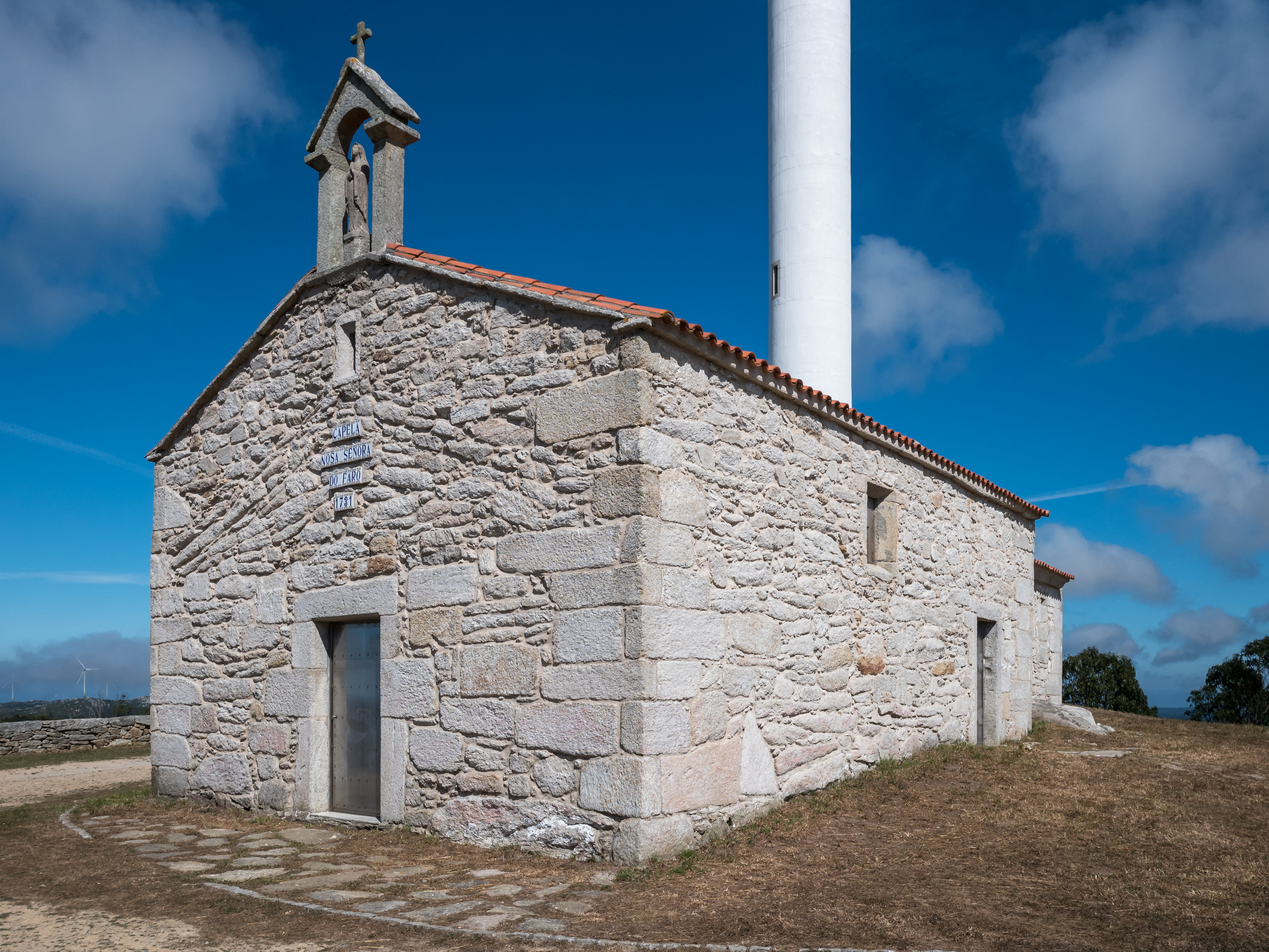 Virgen del Faro ("the Lighthouse Virgin"), chapel and lighthouse monument. Brantuas, Ponteceso, La Coruña, Galicia, Spain